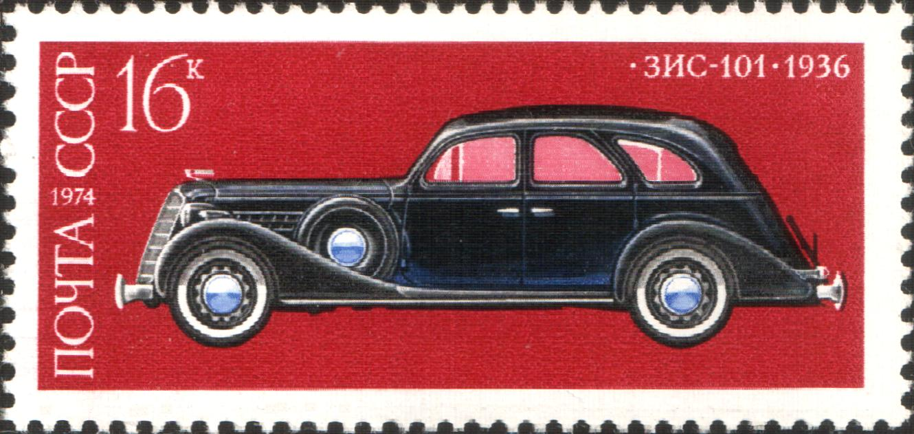 USSR stamp